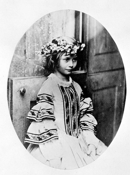 Alice Liddell as 'The Queen of May': this was published in either:[1][2] Lewis Carroll with a text by Graham Ovenden (Masters of photography series). London : McDonald & Queen Anne. 1984, or Lewis Carroll, Photographer by Helmut Gernsheim. London : Max Parrish & Co. 1949.